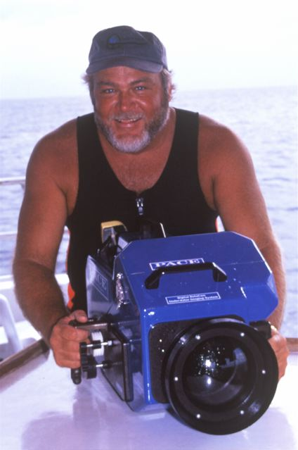 Photograph of Bret Gilliam